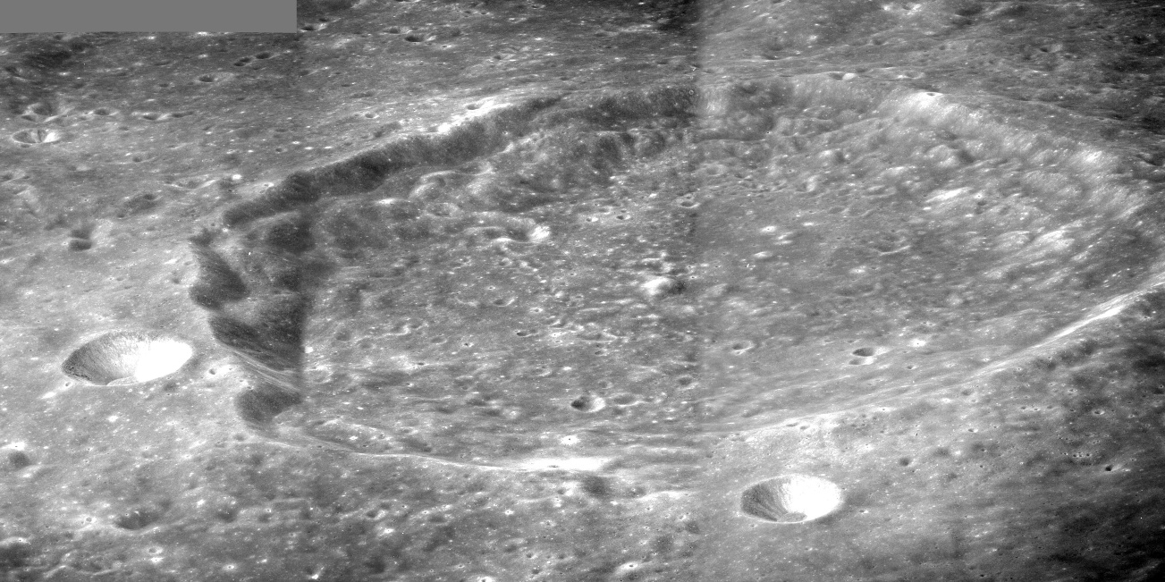 Oblique view of Ansgarius, on the moon.